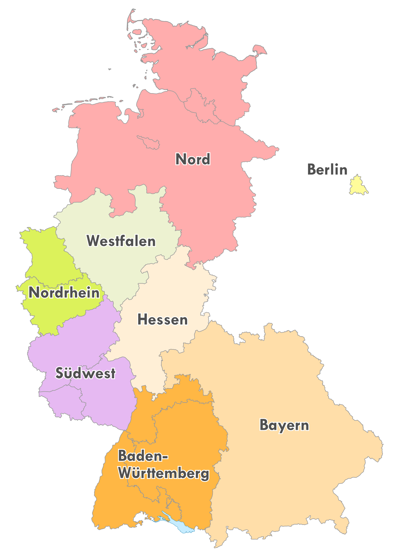 Map of German sub-regional soccer league, 1978-91